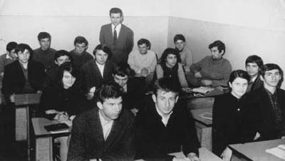 Matematička gimnazija - Mathematical Gymnasium Belgrade - MGB - First generation of students